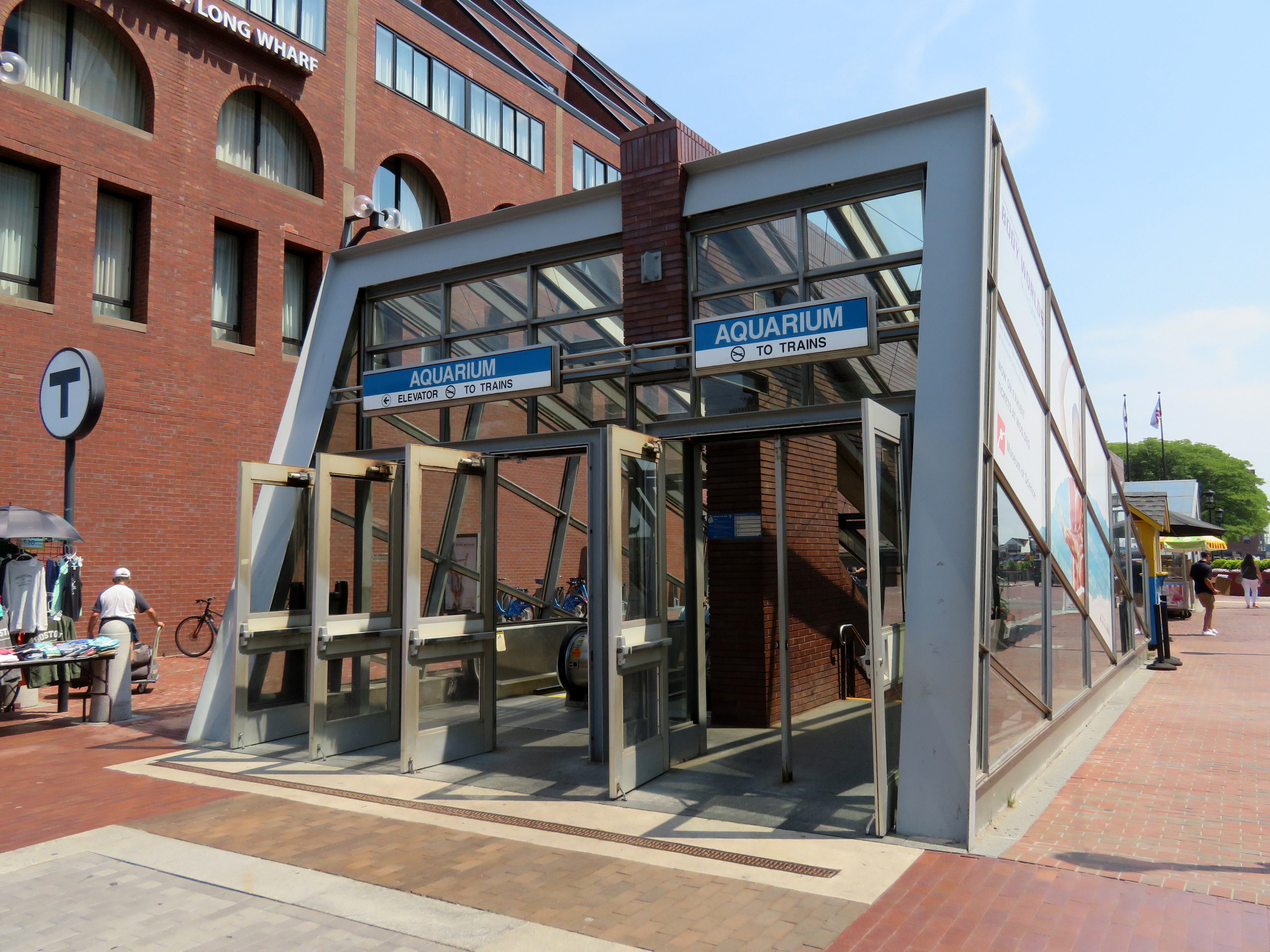 The main Long Wharf headhouse to Aquarium station in July 2019